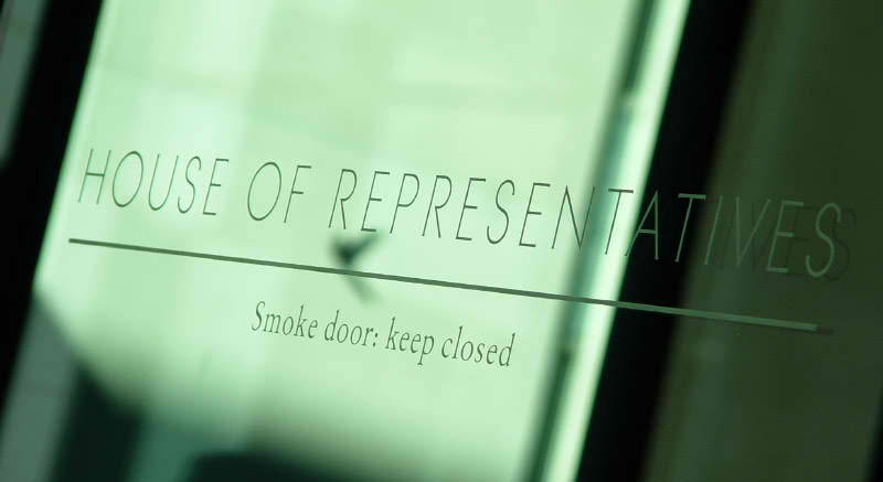 Photo of the entrance doors to the Australian House of Representatives, Parliament House.